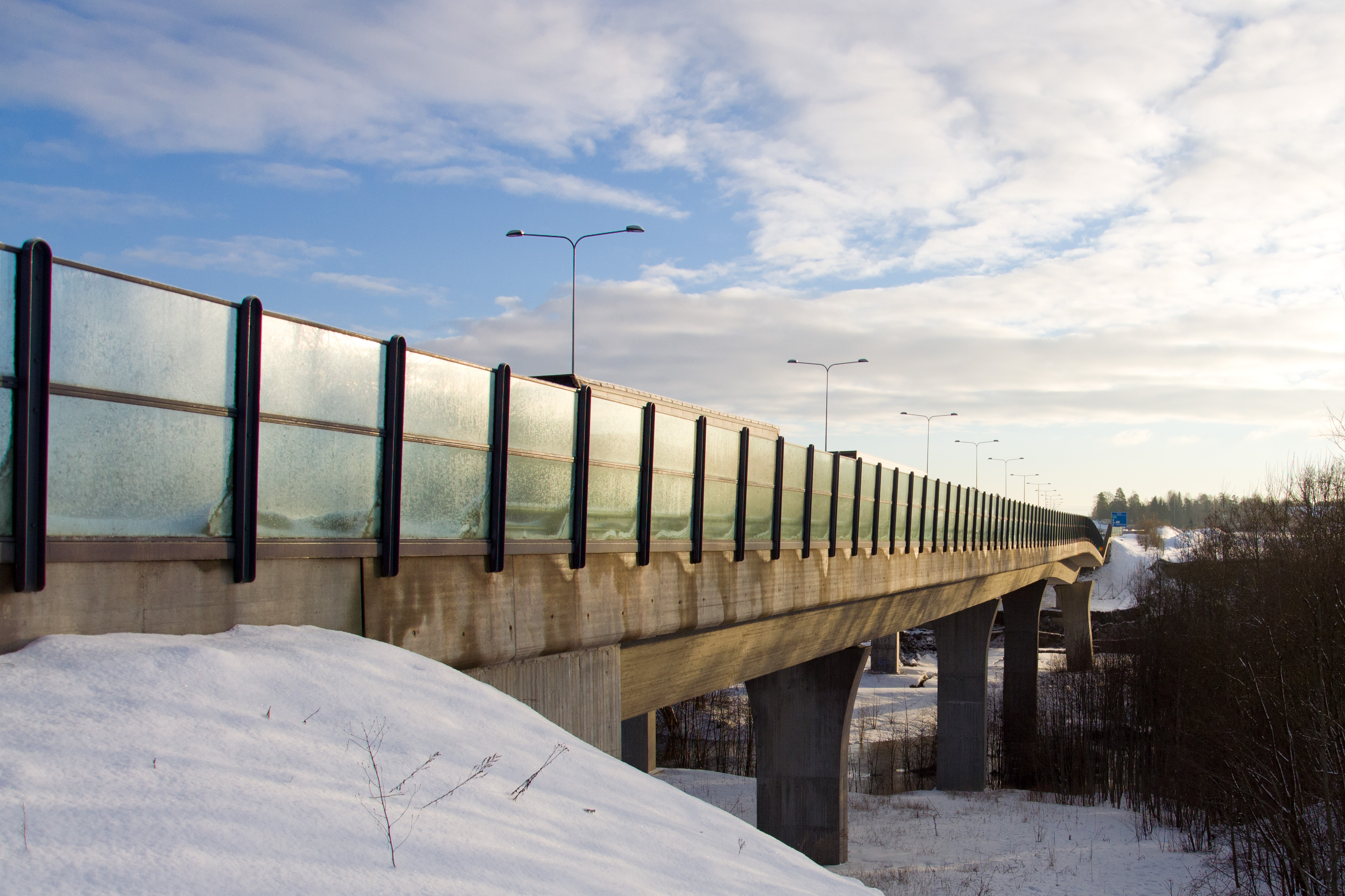 The Skjeggestad Bridge (a.k.a. Mofjellbekken bridge) on the national highway E18 in Holmestrand, Vestfold, Norway after its collapse on february 2nd, 2015.